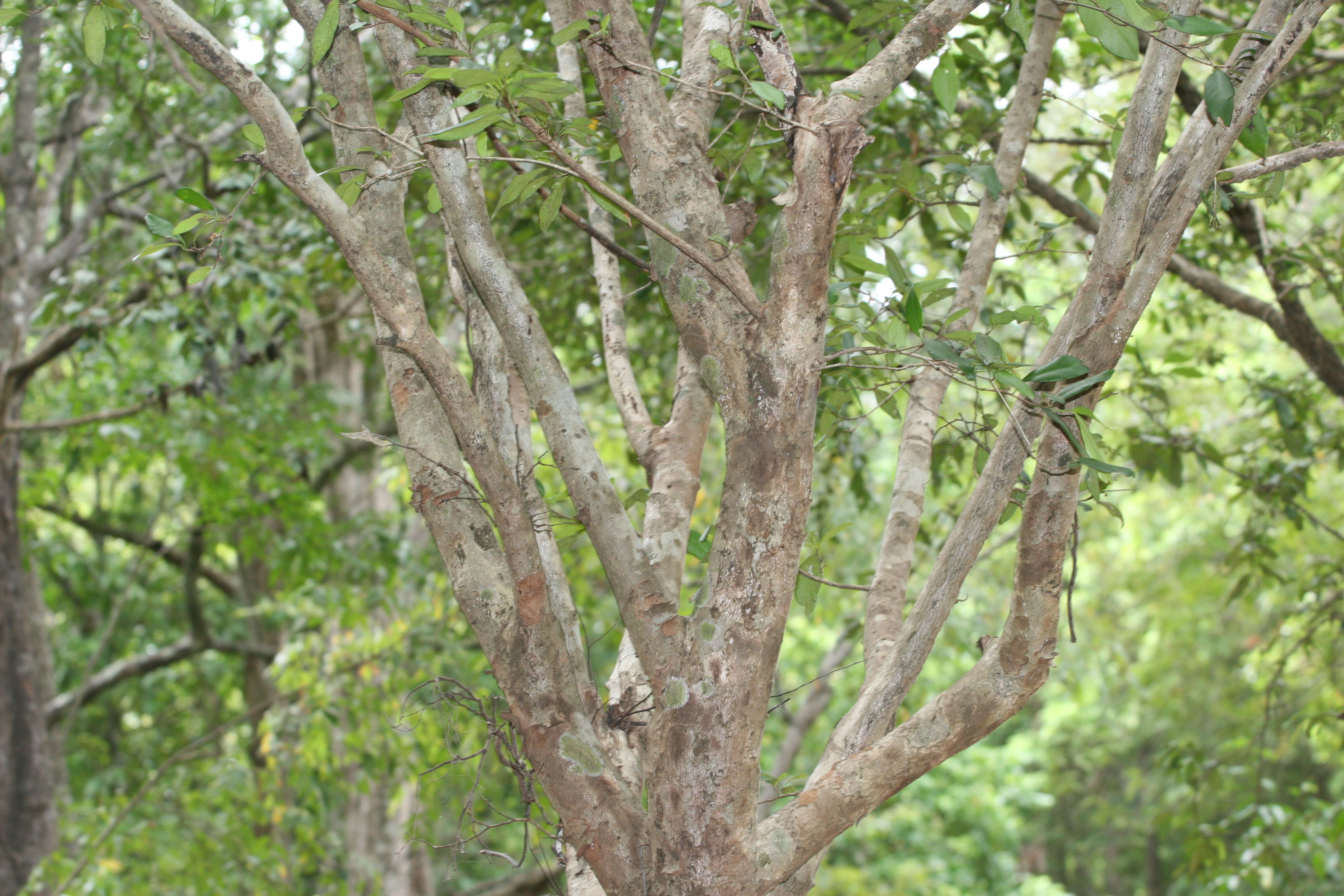 Dialium indum stem